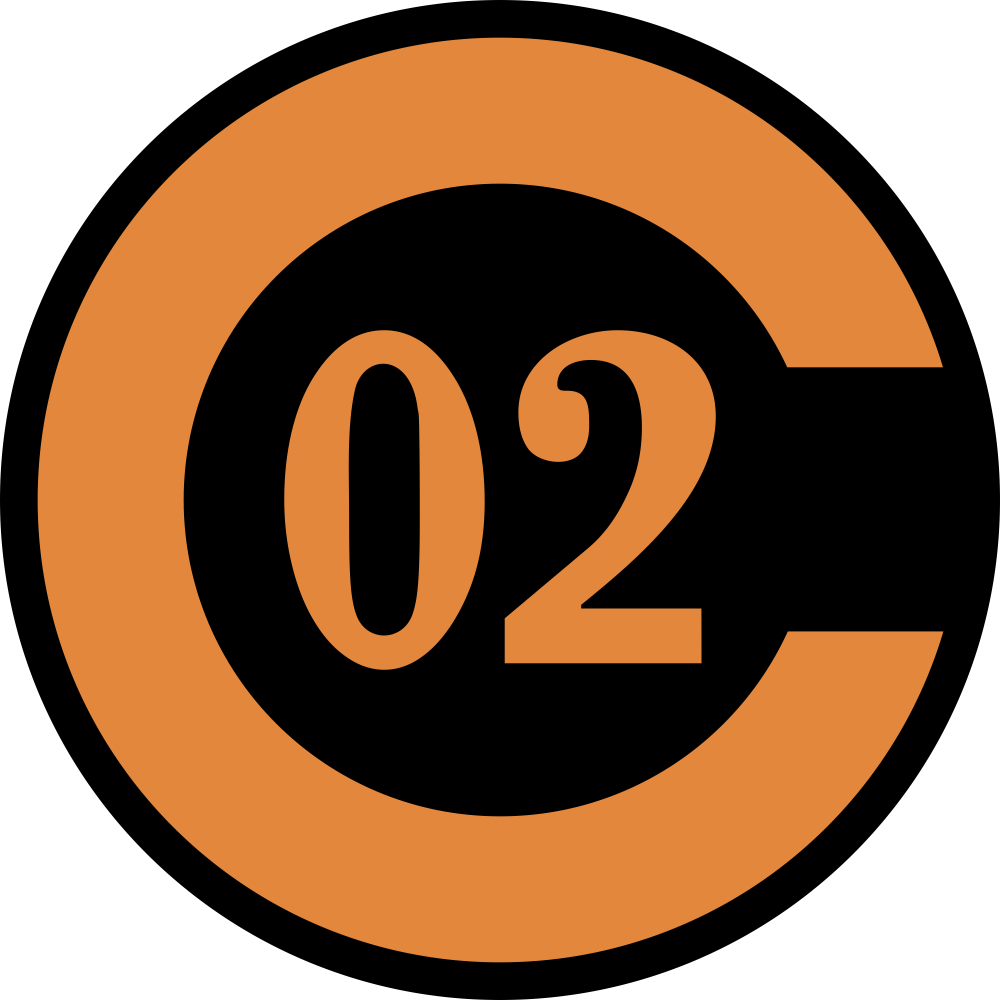 Logo of former german sportclub SV Köthen 02 (until 1927 SV Cöthen 02)